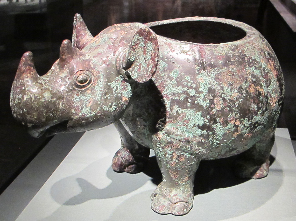 Ritual vessel in the shape of a rhinoceros, Shang dynasty, c.1100-1050 BCE, Shandong province, China. Asian Art Museum San Francisco, CA